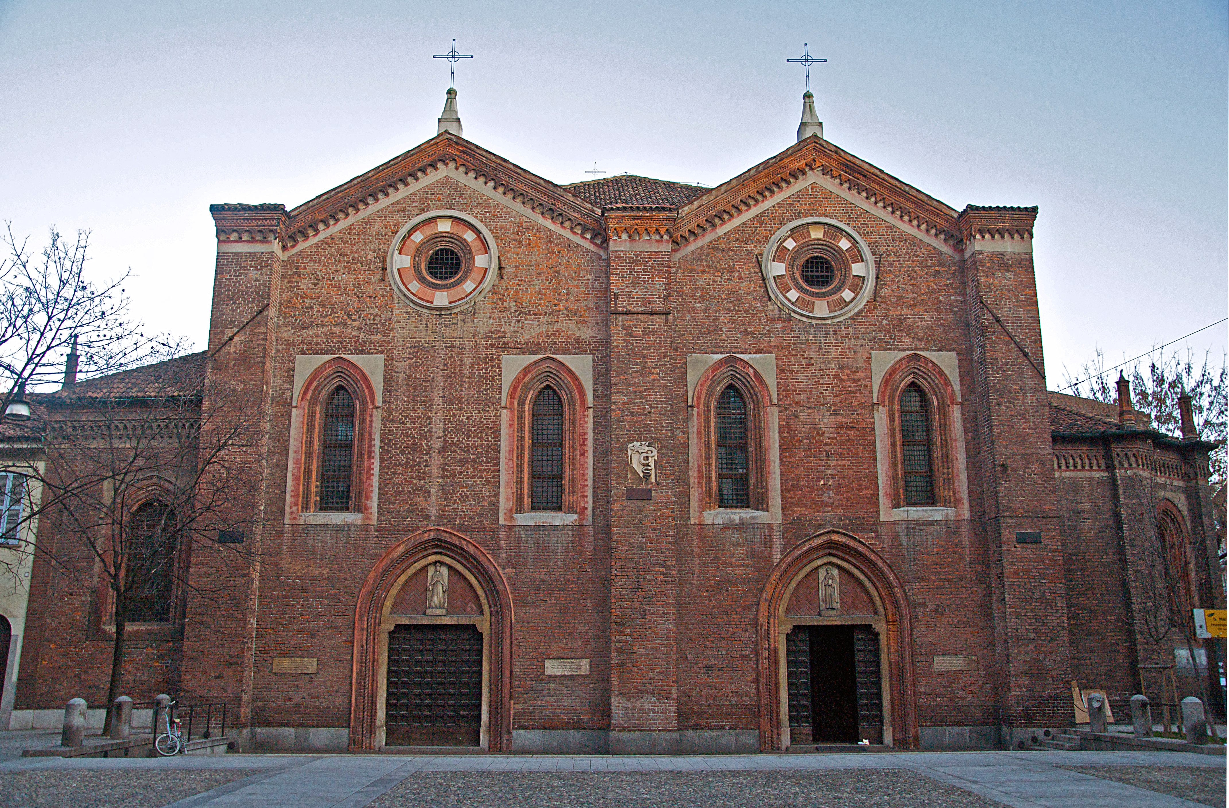 Church of Santa Maria Incoronata (Milan) - twin Facades